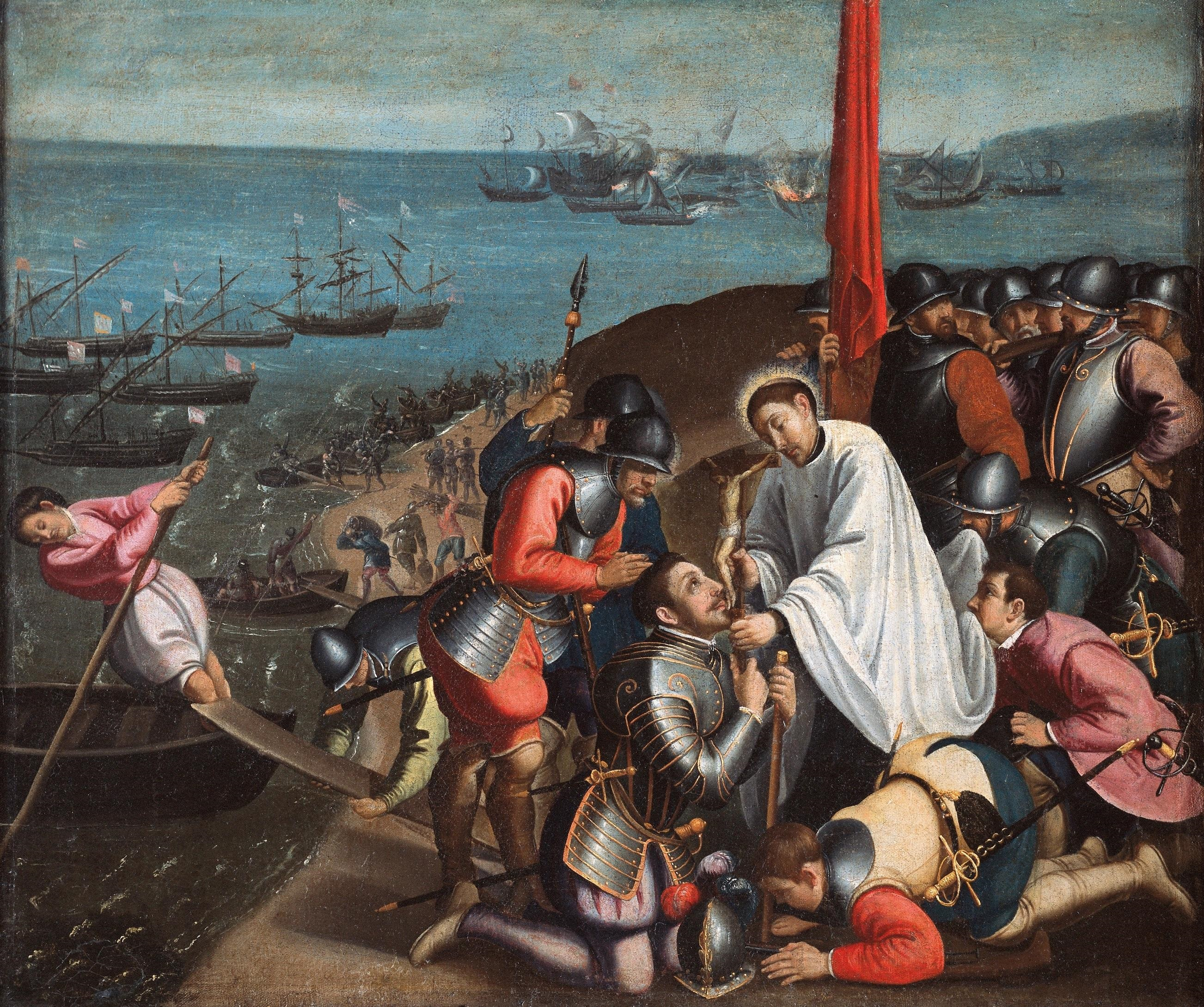 A painting entitled Saint Francis Xavier Inspiring Portuguese Troops Against the Acehnese Pirates made by the Portuguese barroque painter André Reinoso in 1619, currently in the Church of São Roque in Lisbon.